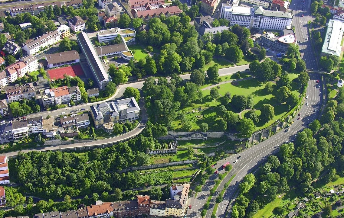 Aerial photography of "Weinberg" in Kassel, Germany